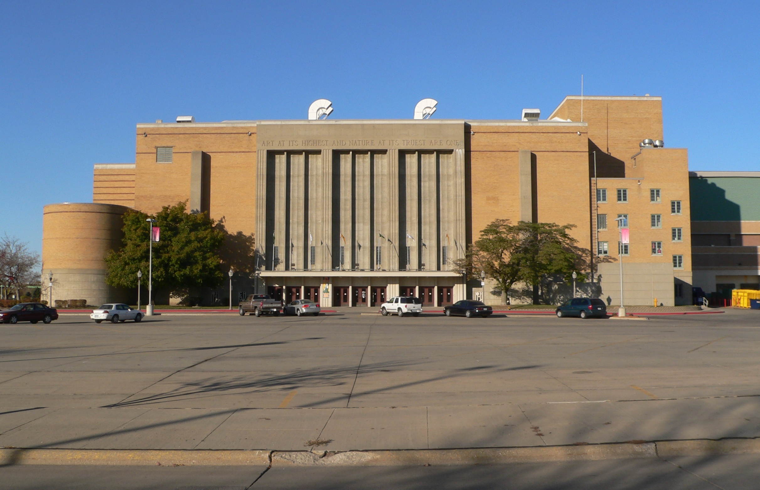 Sioux City Municipal Auditorium, now part of the Tyson Events Center, in Sioux City, Iowa; seen from the east.